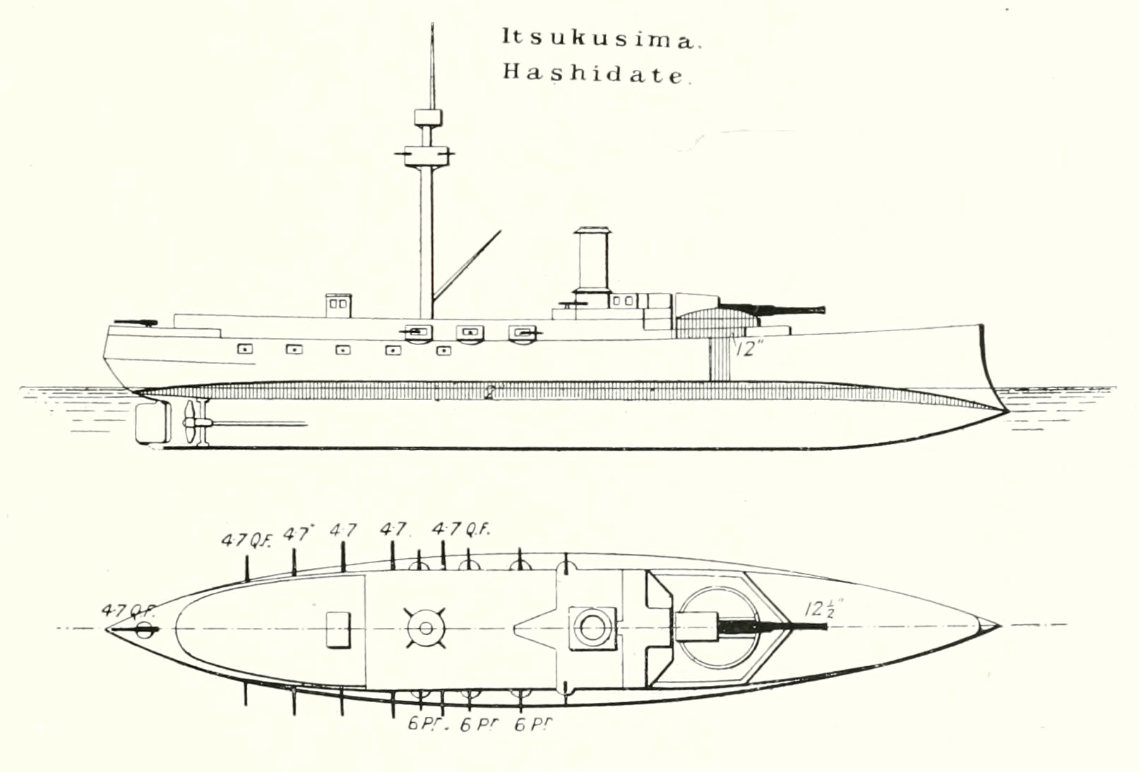 Sketch of the Japanese protected cruisers Itsukushima class.